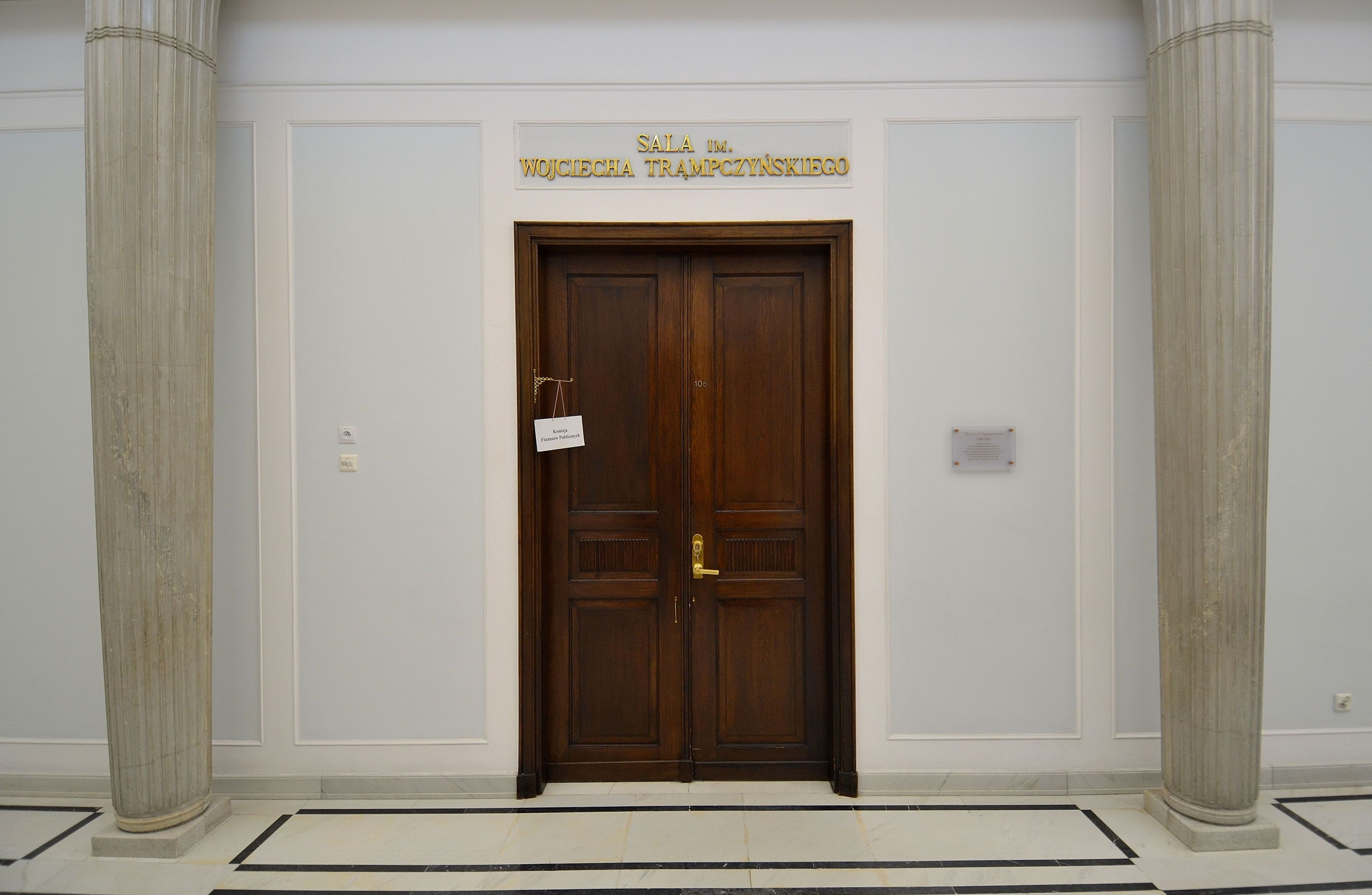 Wojciech Trąmpczyński Hall (no 106) in the Polish Sejm bulding